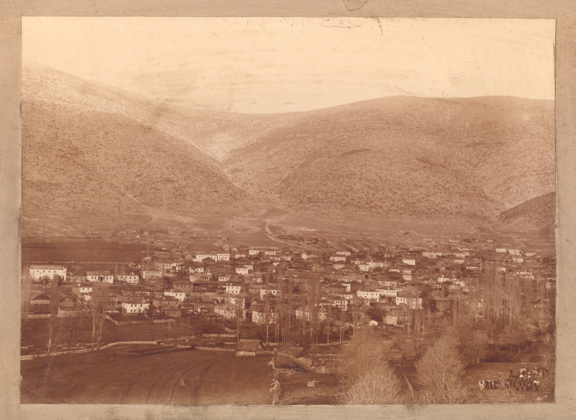 Village Cer, Drugovo Municipality in 1903